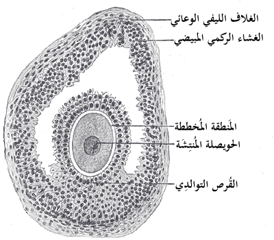 Section of vesicular ovarian follicle of cat. X 50.